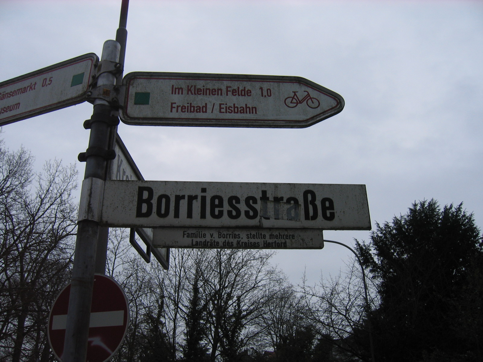 in Herford, District of Herford, North Rhine-Westphalia, Germany.